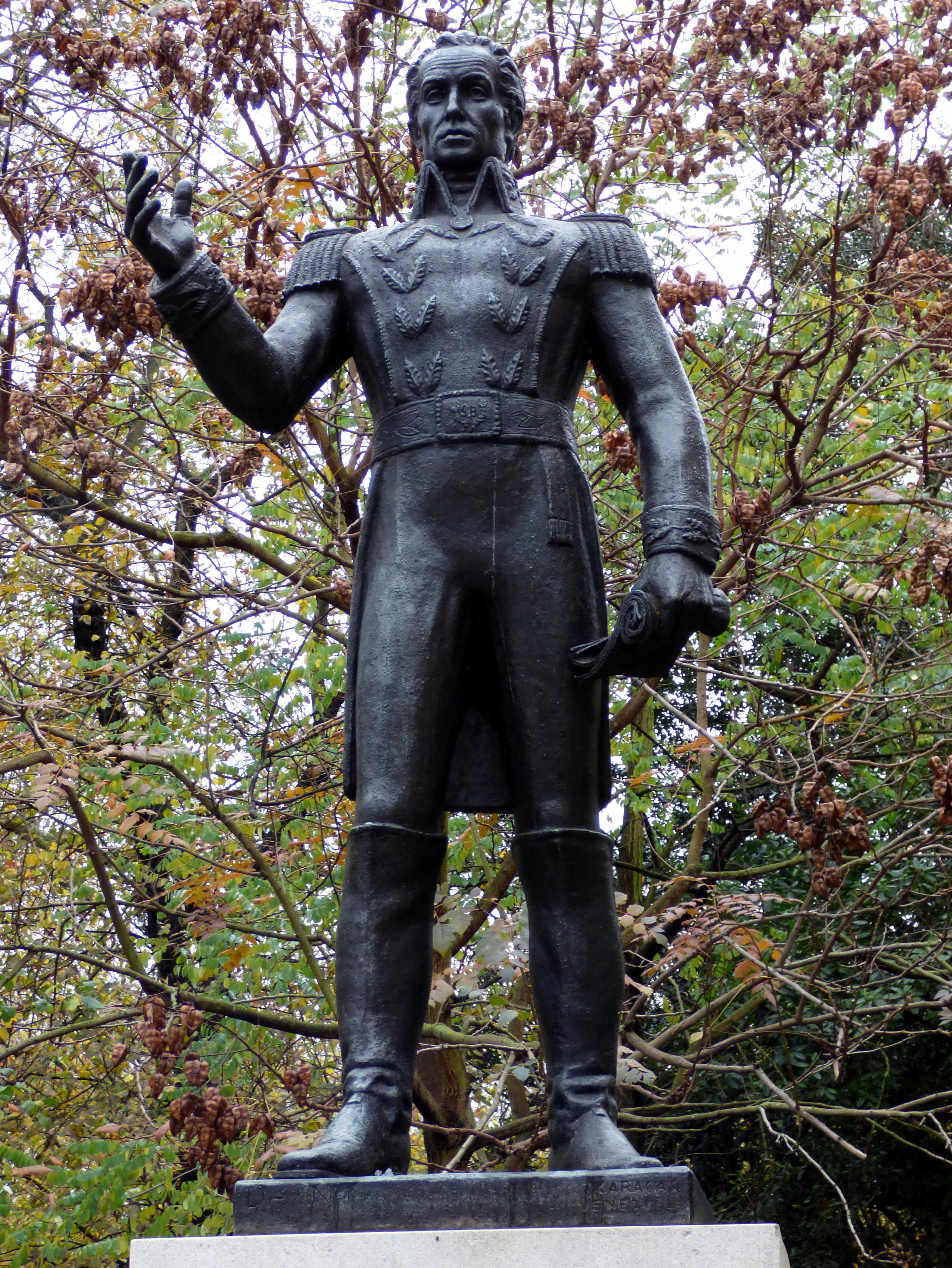 Statue of Simón Bolívar, 1974, by Hugo Daini, Belgrave Square, Belgravia, City of Westminster, London. GOC Hertfordshire's walk on 11 November 2017, an 8-mile point-to-point walk from Pimlico to Notting Hill Gate via Millbank, Belgravia, Knightsbridge, Hyde Park and Kensington Gardens. John T led the walk, which was attended by 15 people. You can view my other photos of this event, read the original event report, find out more about the Gay Outdoor Club or see my collections.